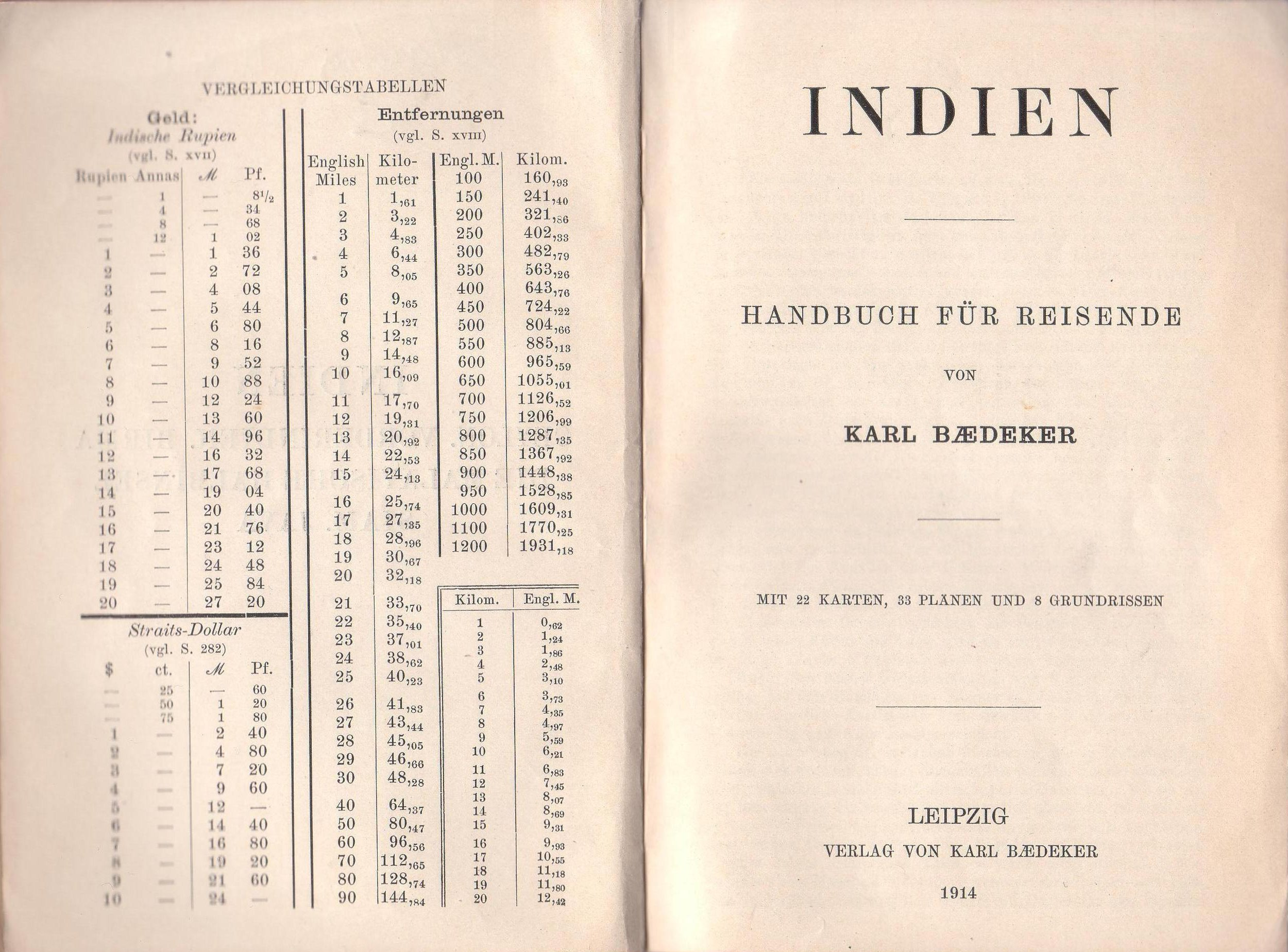 Titlepage and frontispiece of Baedekers Indien 1914